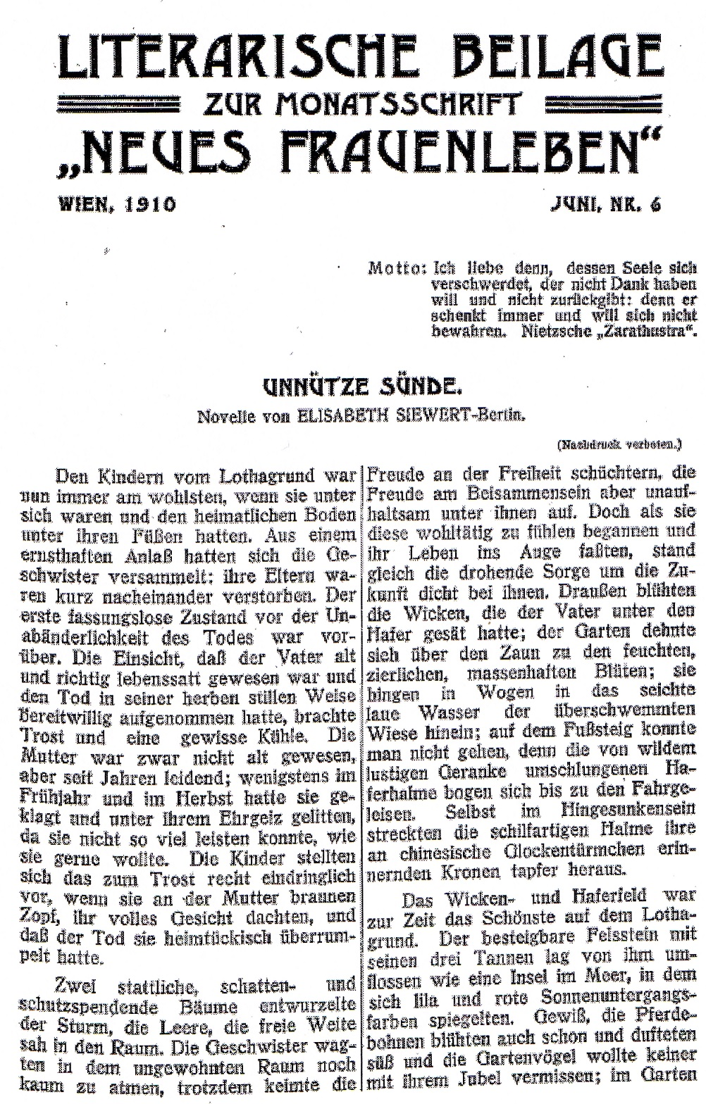 First page of the novella Unnütze Sünde, 1910. Written by Elisabeth Siewert (1867–1930).